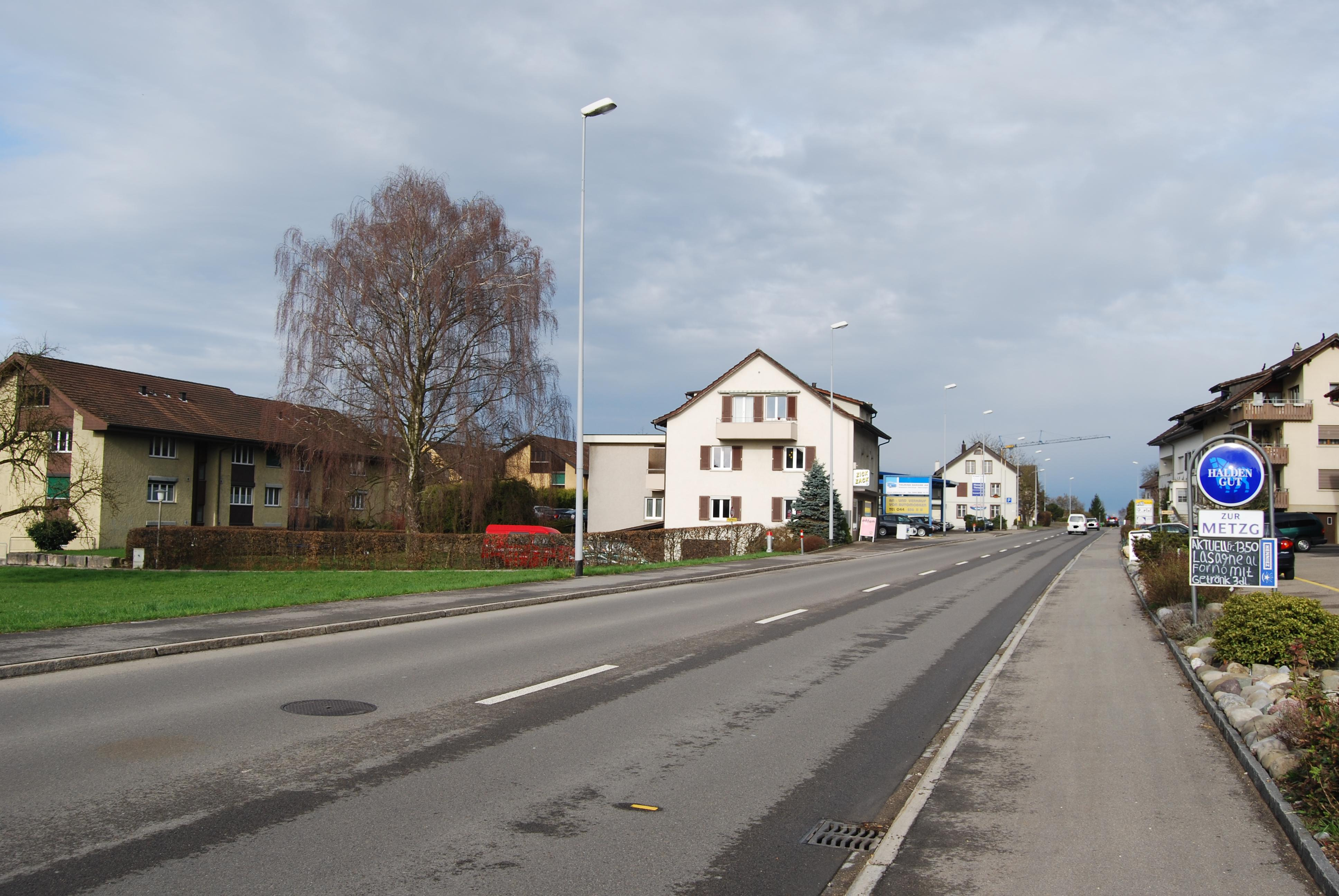 Oberweningen, canton of Zürich, SwitzerlandEsperanto: Oberweningen, Kantono Zuriko, Svislando